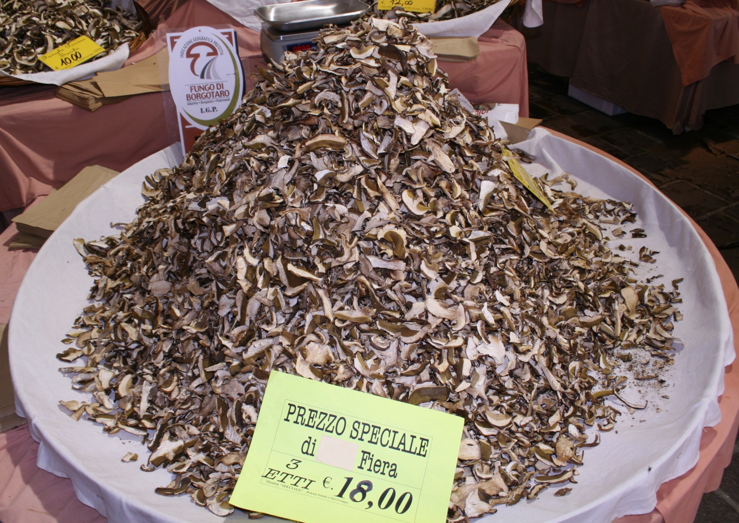 A pile of dried porcini (mushrooms). Taken at the 31st Sagra del Fungo (mushroom festival) in Borgotaro, Italy, in Septmember 2006. On the pricetag, etti is short for the Italian ettogrammi (plural of hectogram, 100 grams). Taken by me.